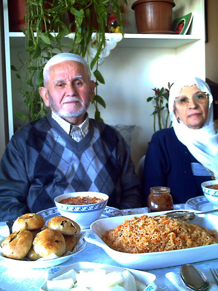 Uzbeks from Turkey.